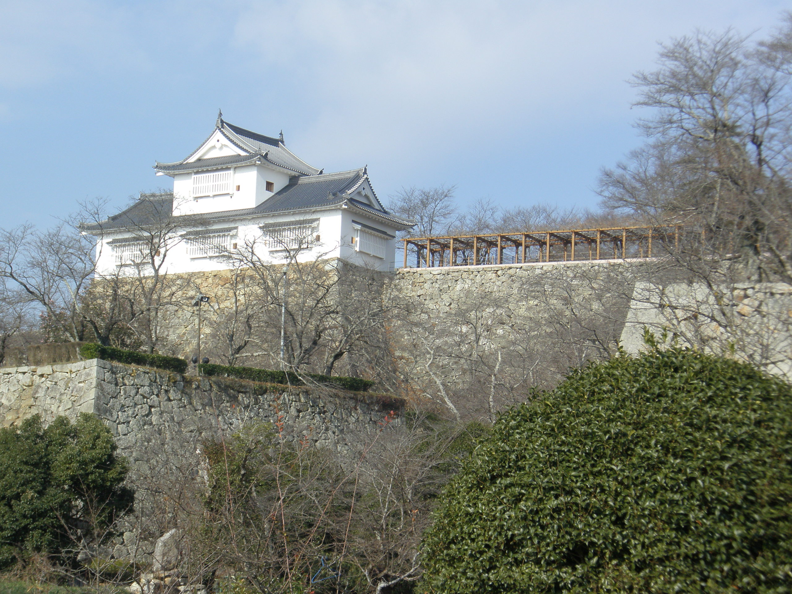 Kakuzan Park, Tsuyama.